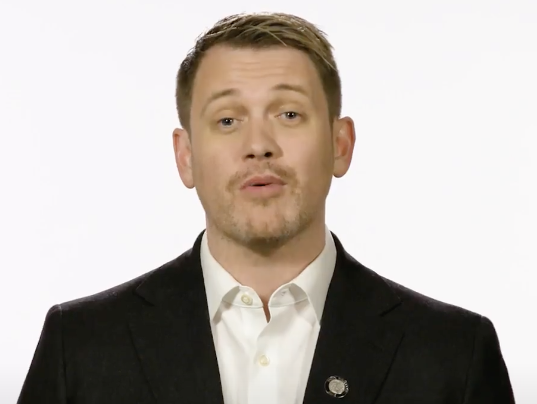 Michael Arden in a 2018 Tony Awards video, "Broadway in One Word"